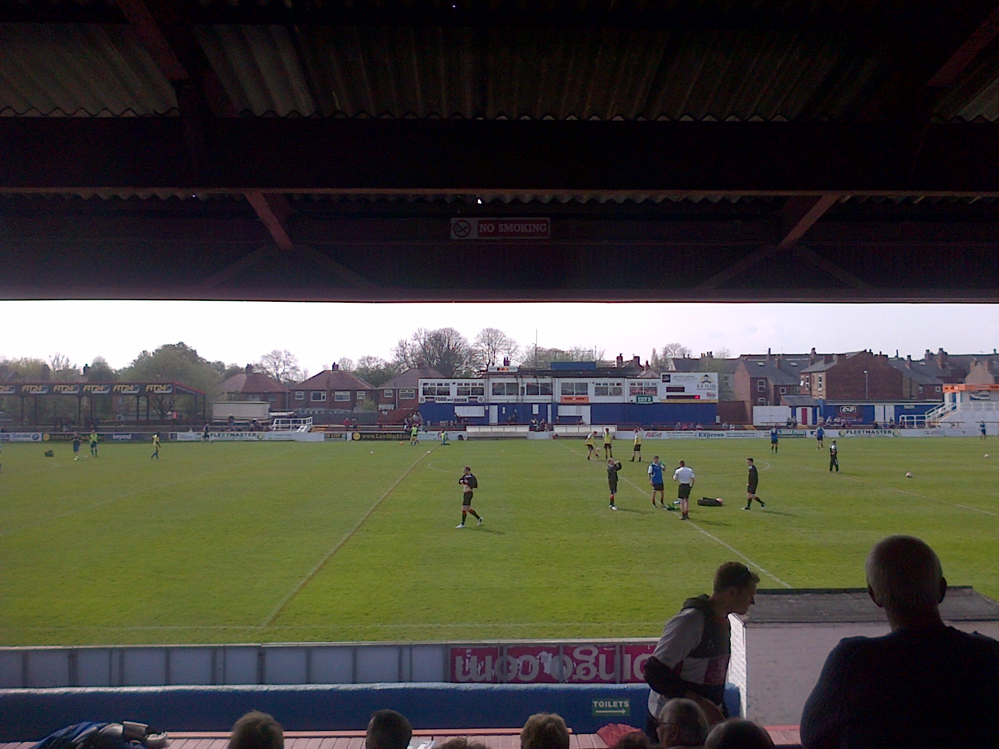 WAKEFIELD FC ARTHUR STREET TERRACE STAND AMD MEDIA CENTRE